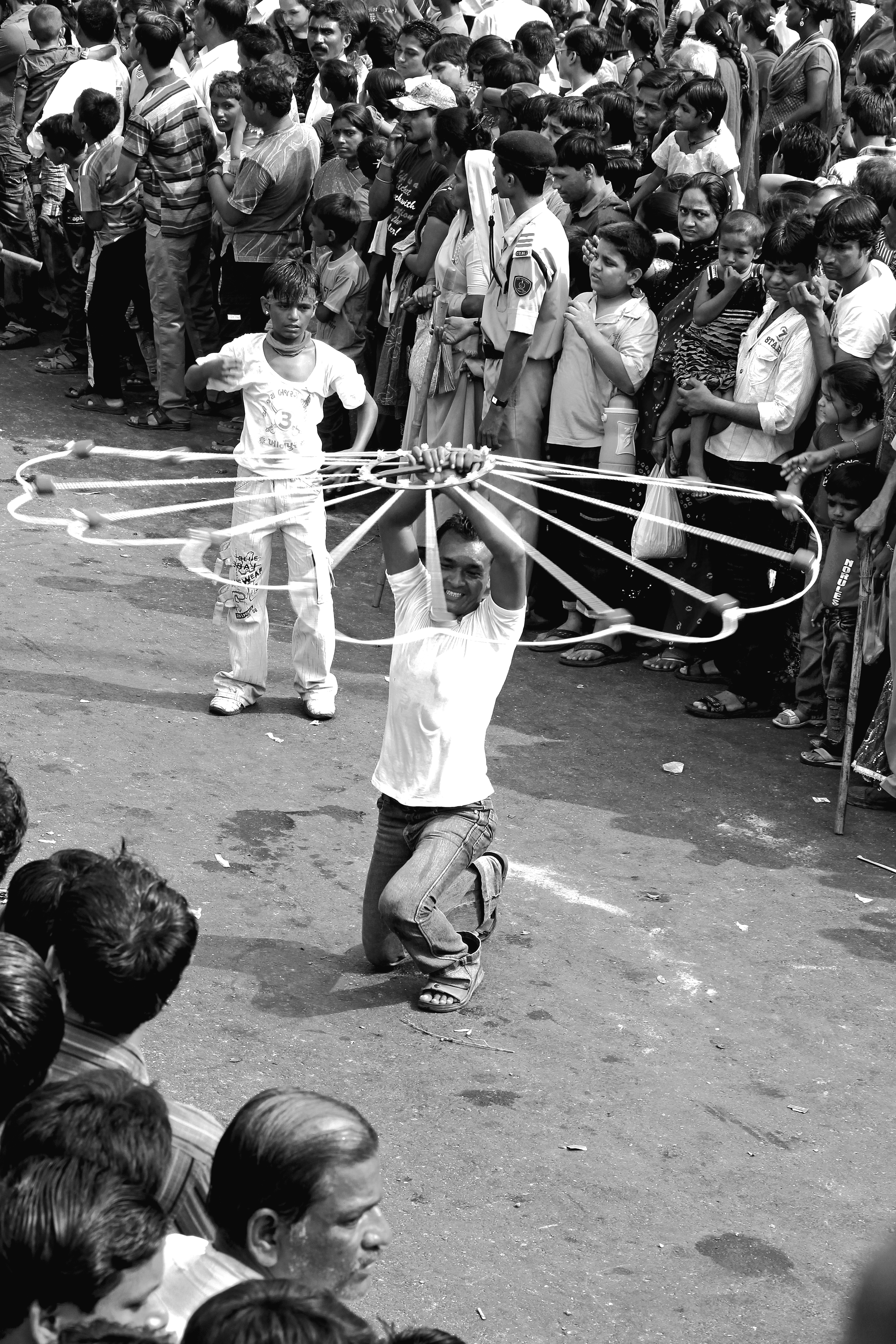 Rathyatra 2011 ahmedabad